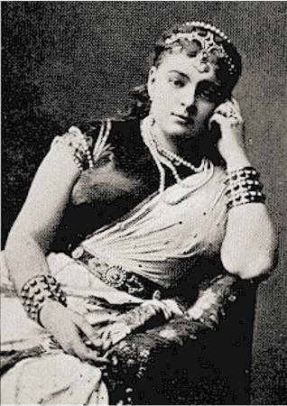 Polish opera singer Joséphine de Reszke (1855-1891) as As Sitâ in "Le Roi de Lahore" by Massenet